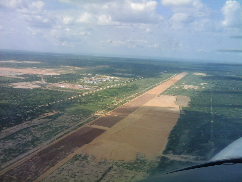 Construction site Angola International Airport2